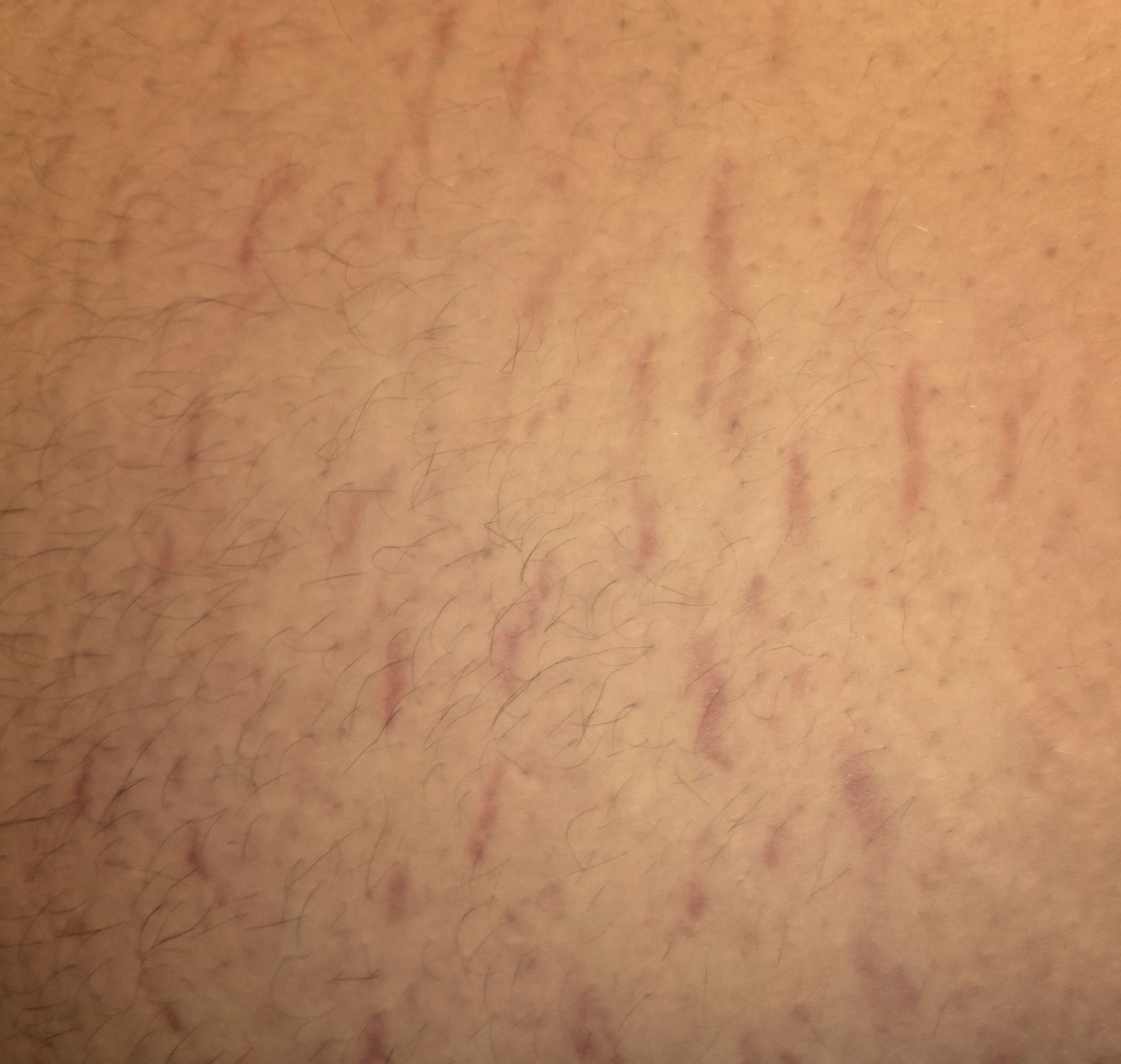 Stretchmarks on the abdomen of an obese adult male.